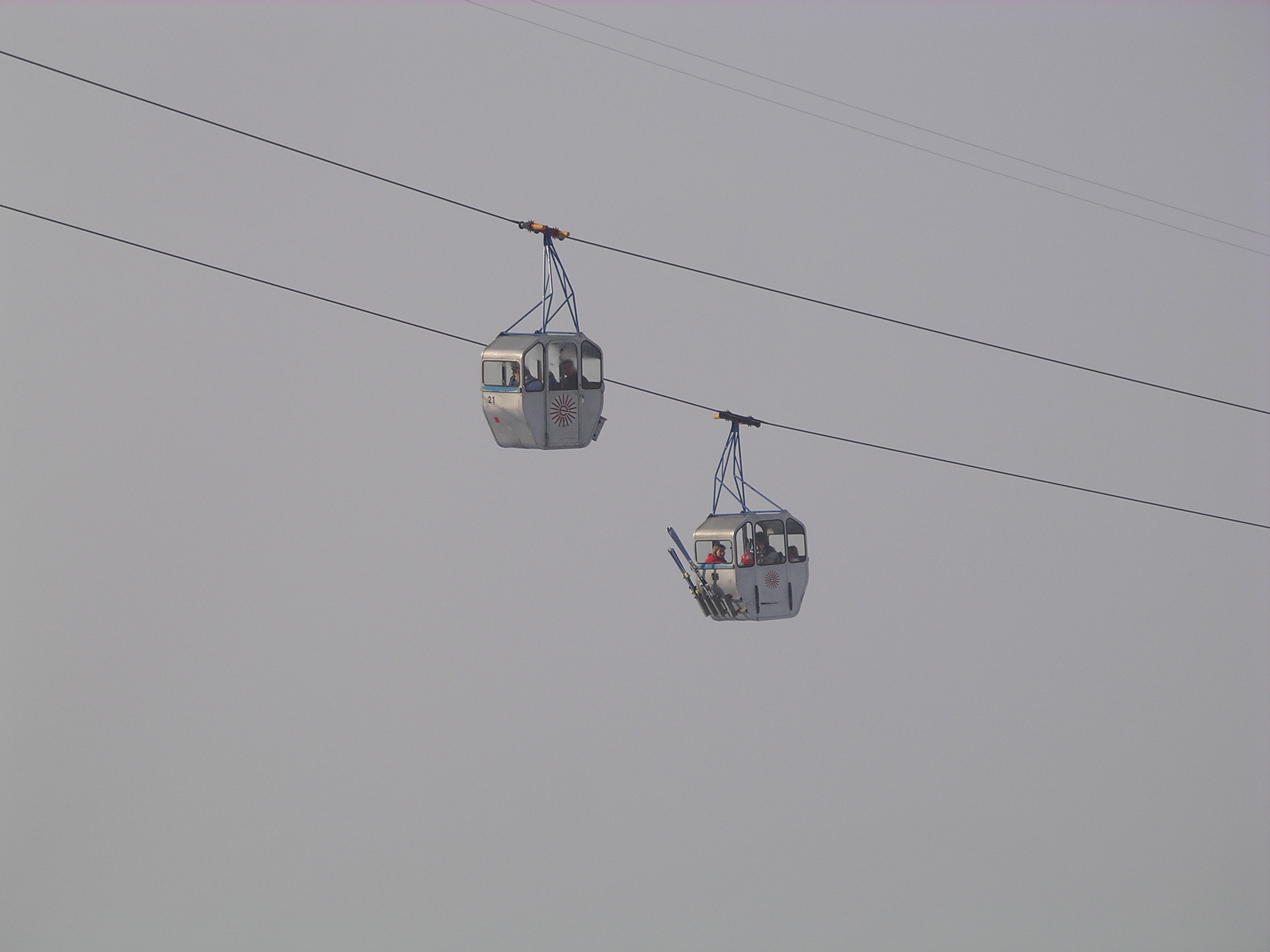 Picture of a classic gondola lift from the 1960s near Lucerne, Switzerland